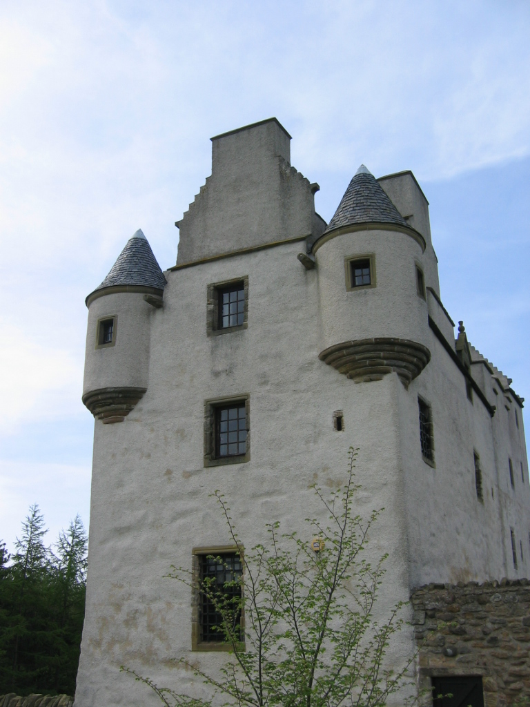 Fa'side Castle, East Lothian, Scotland